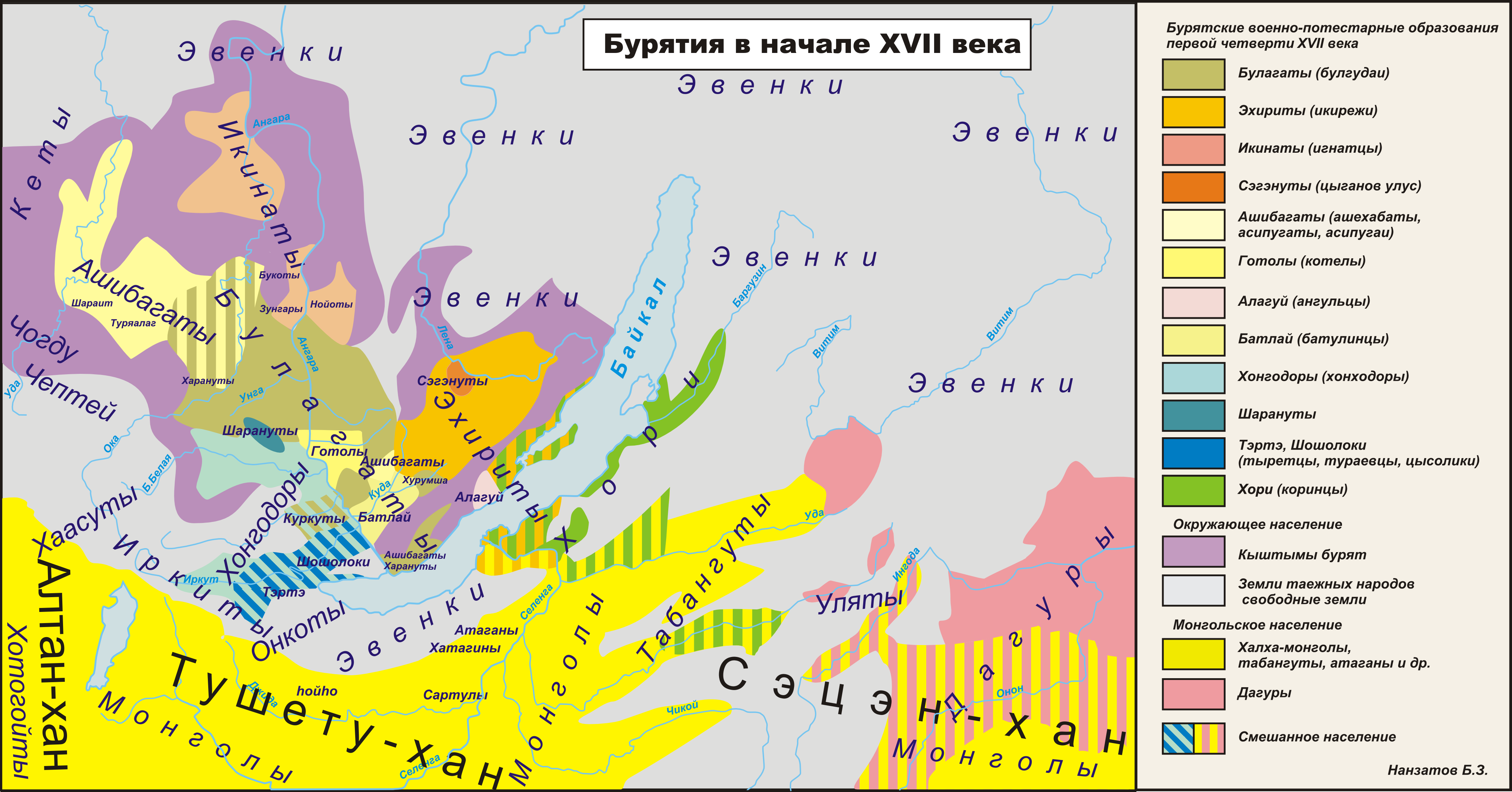 Historical map. Ethnic and political situation in the beginning of 17 century in Buryatia. On the map presented tribal unions and tribes of Buryats, Mongols and Dagurs.